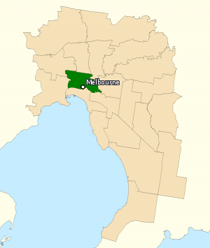 Incorporates or developed using Administrative Boundaries ©PSMA Australia Limited licensed by the Commonwealth of Australia under Creative Commons Attribution 4.0 International licence (CC BY 4.0). Derived from State and Territory Boundaries from the Australian Bureau of Statistics under Creative Commons Attribution 2.5 Australia license (CC BY 2.5 AU)